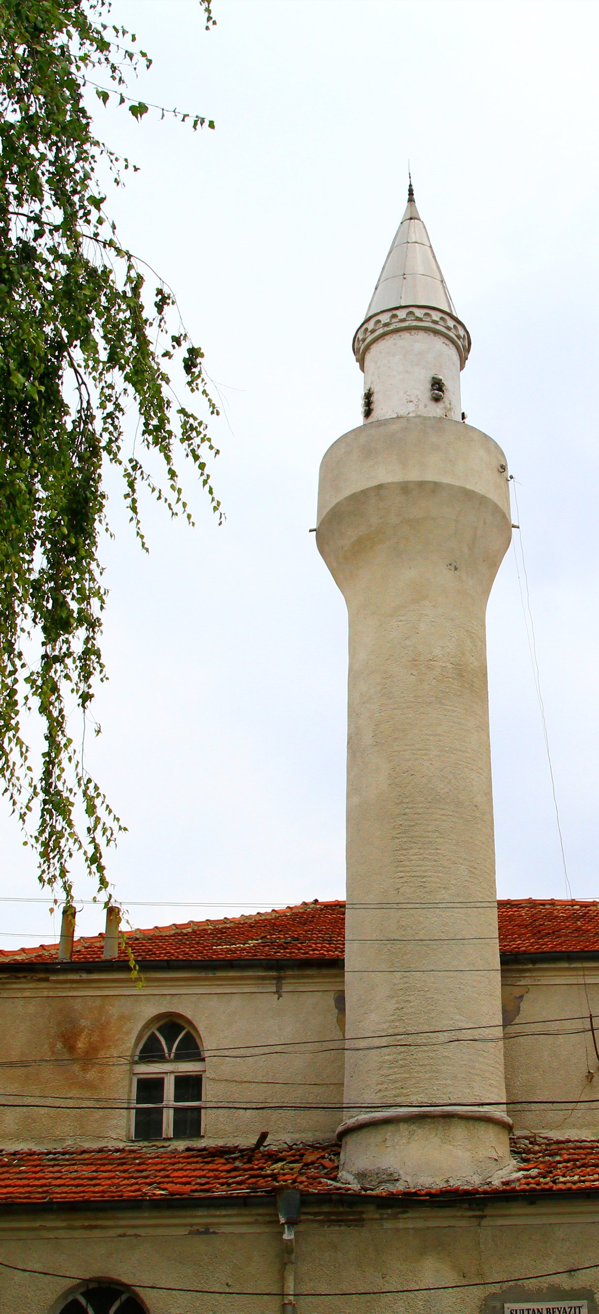 Great Mosque of Sultan Bayezid